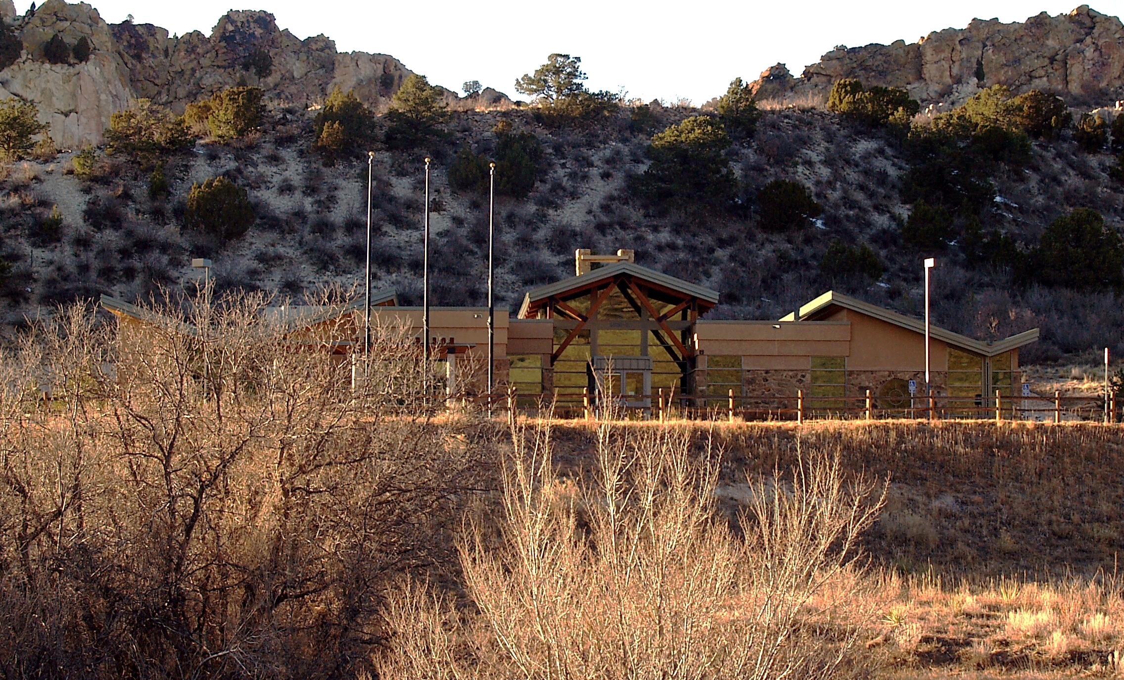 The Navigators International Office at the Glen Eyrie castle and conference center in Colorado Springs.